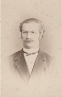 Plate 10 Photograph album of German and Austrian scientists. Dr. Fritz Schultze, Dresden. Karl August Julius Fritz Schultze , born 1846 in Celle , in 1908 in Dresden , was a German philosopher , psychologist and educator.